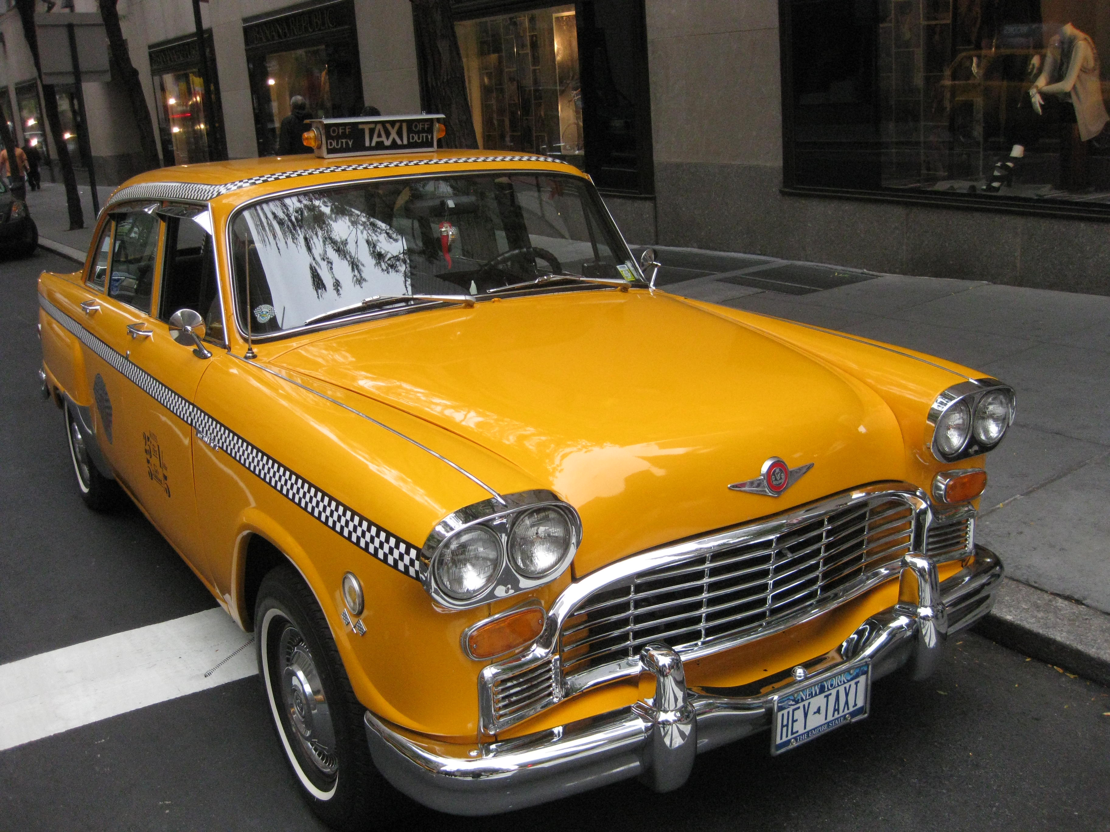 Original Checker with original pre–1976 bumpers